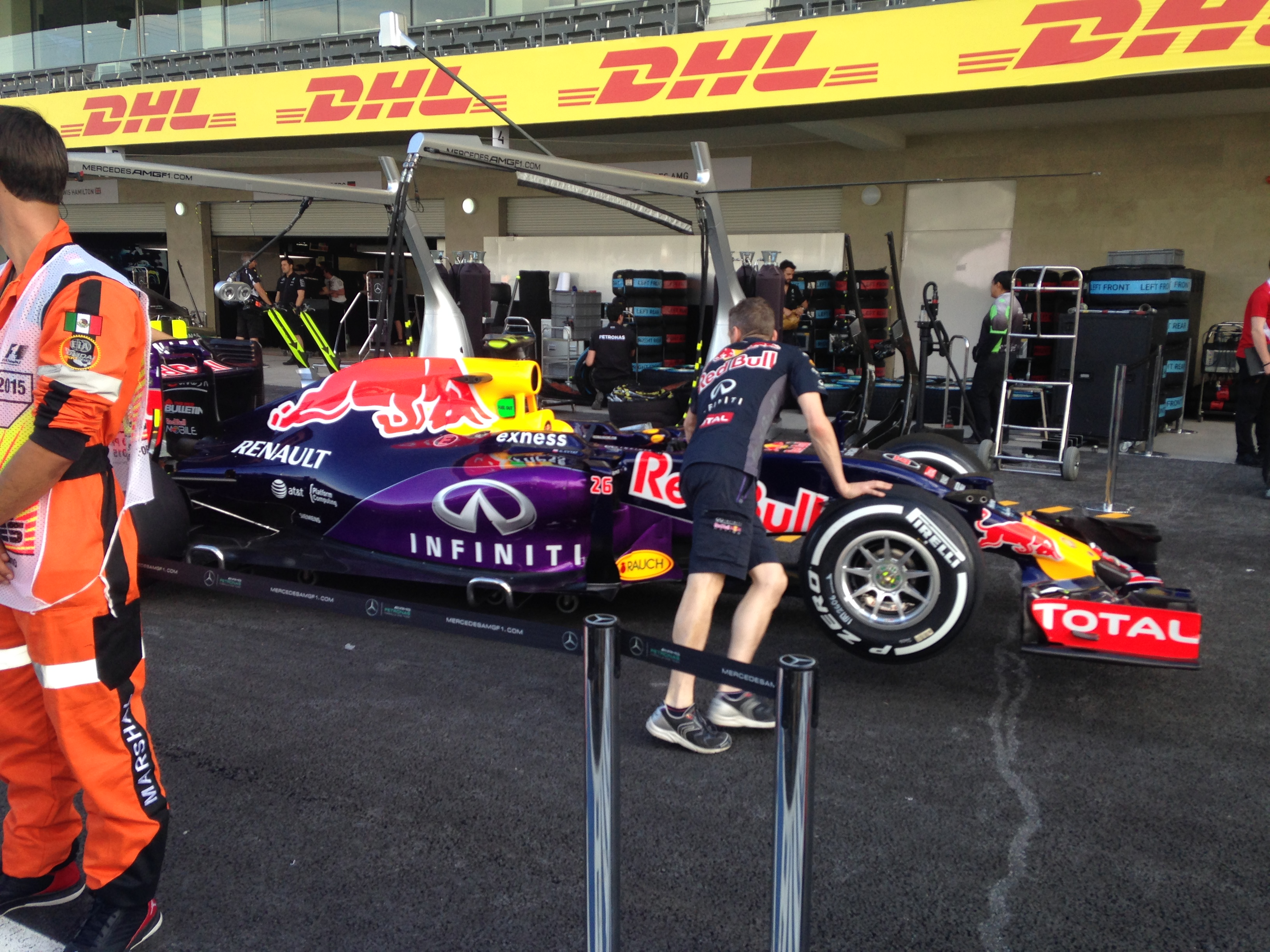 PitWalk Mexican Grand Prix 2015, Autódromo Hermanos Rodríguez. Mexico City, Mexico.